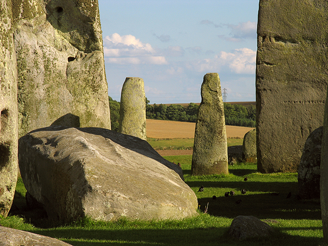 Past the Stones: Stonehenge. Looking east through the henge towards the copse east of stonehenge.